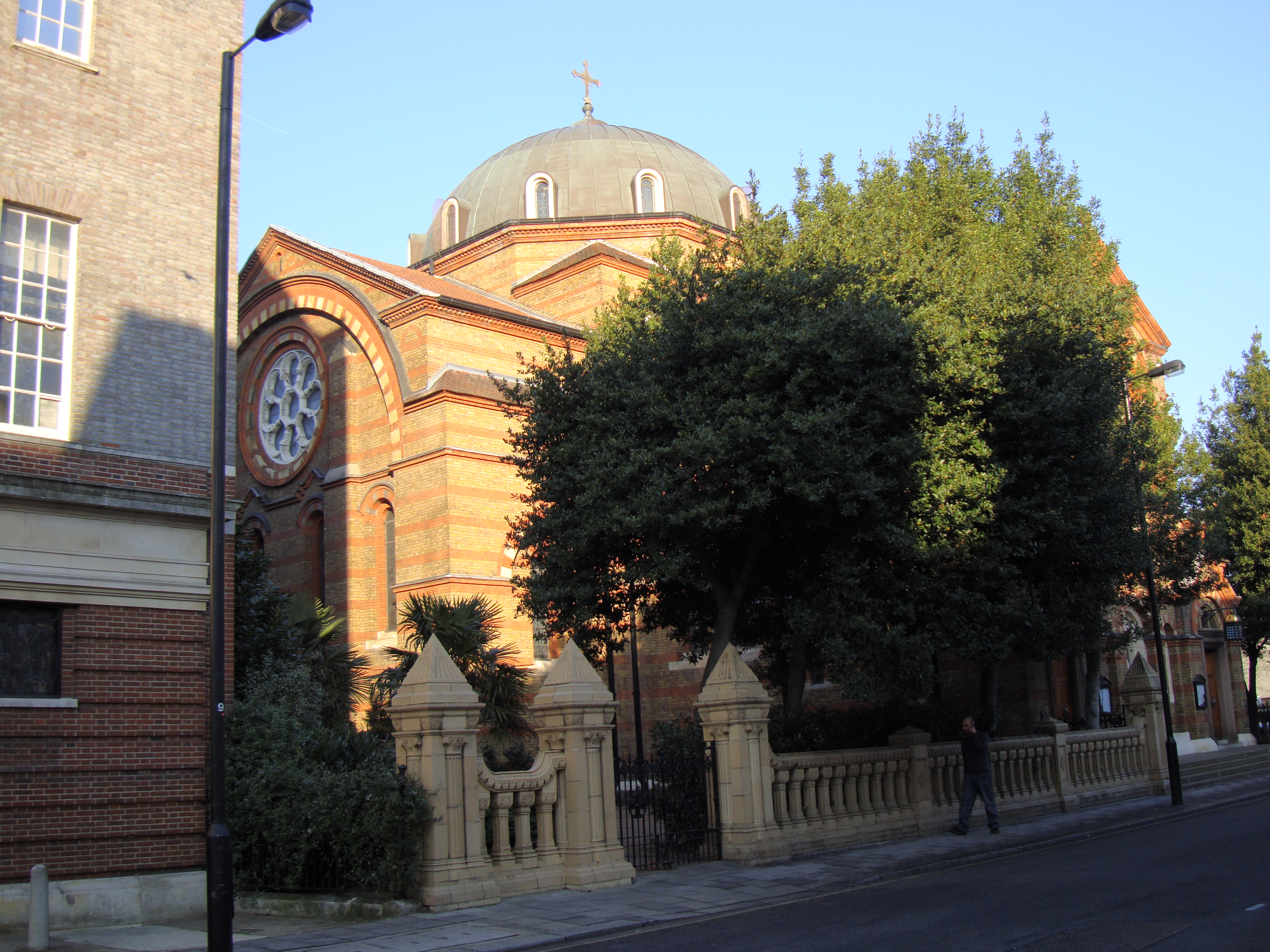 Photograph of the Greek Orthodox Cathedral of St Sophia, Bayswater, London